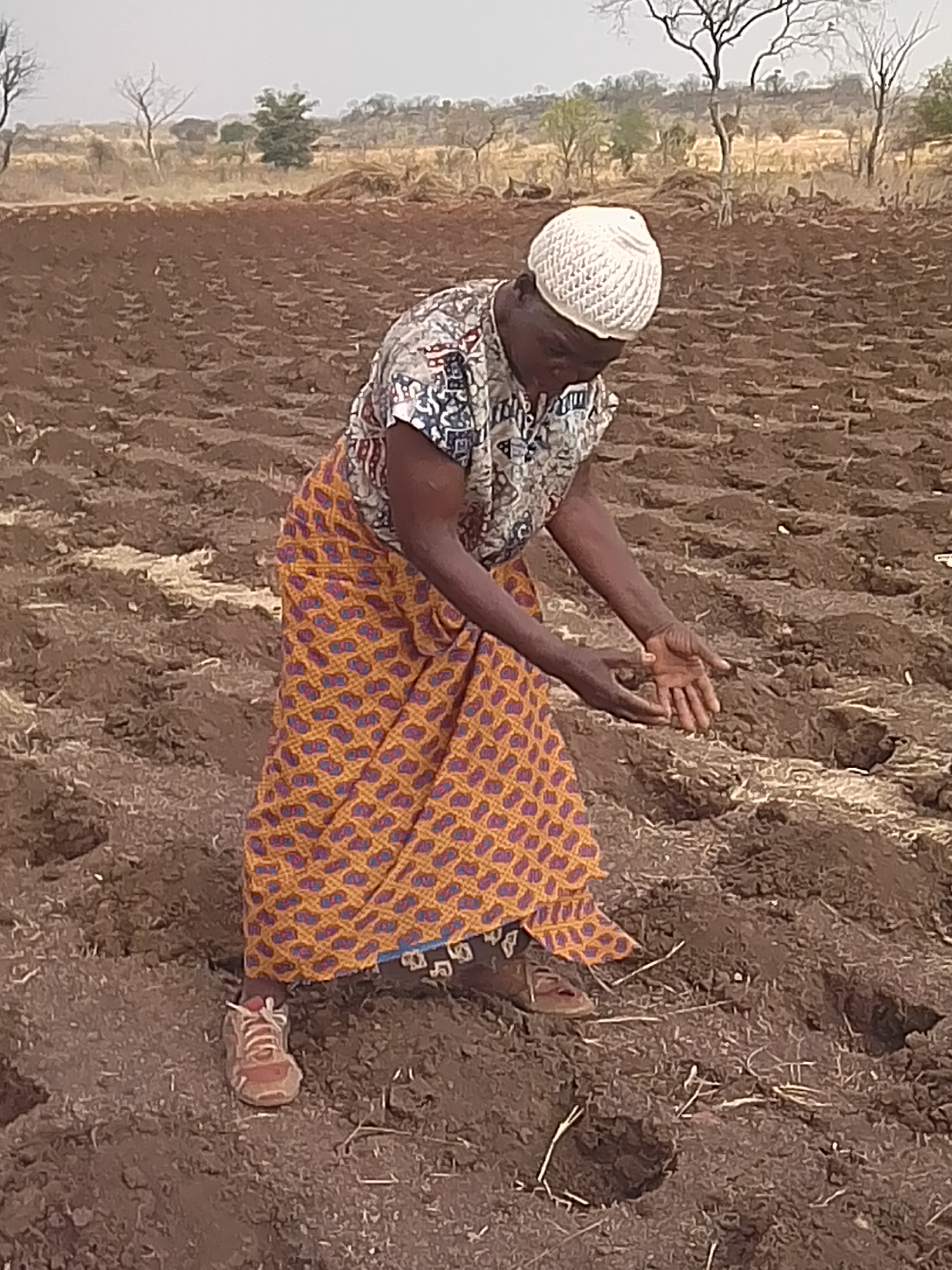 Small scale farmer in Kasiya area of LIvingstone, Zambia practicing conservation farming explaining the concept to others. She prepared the land herself, applied manure and is now waiting to plant soon as it rains. Despite her age she did all the work. This is an image of "African people at work" from Zambia